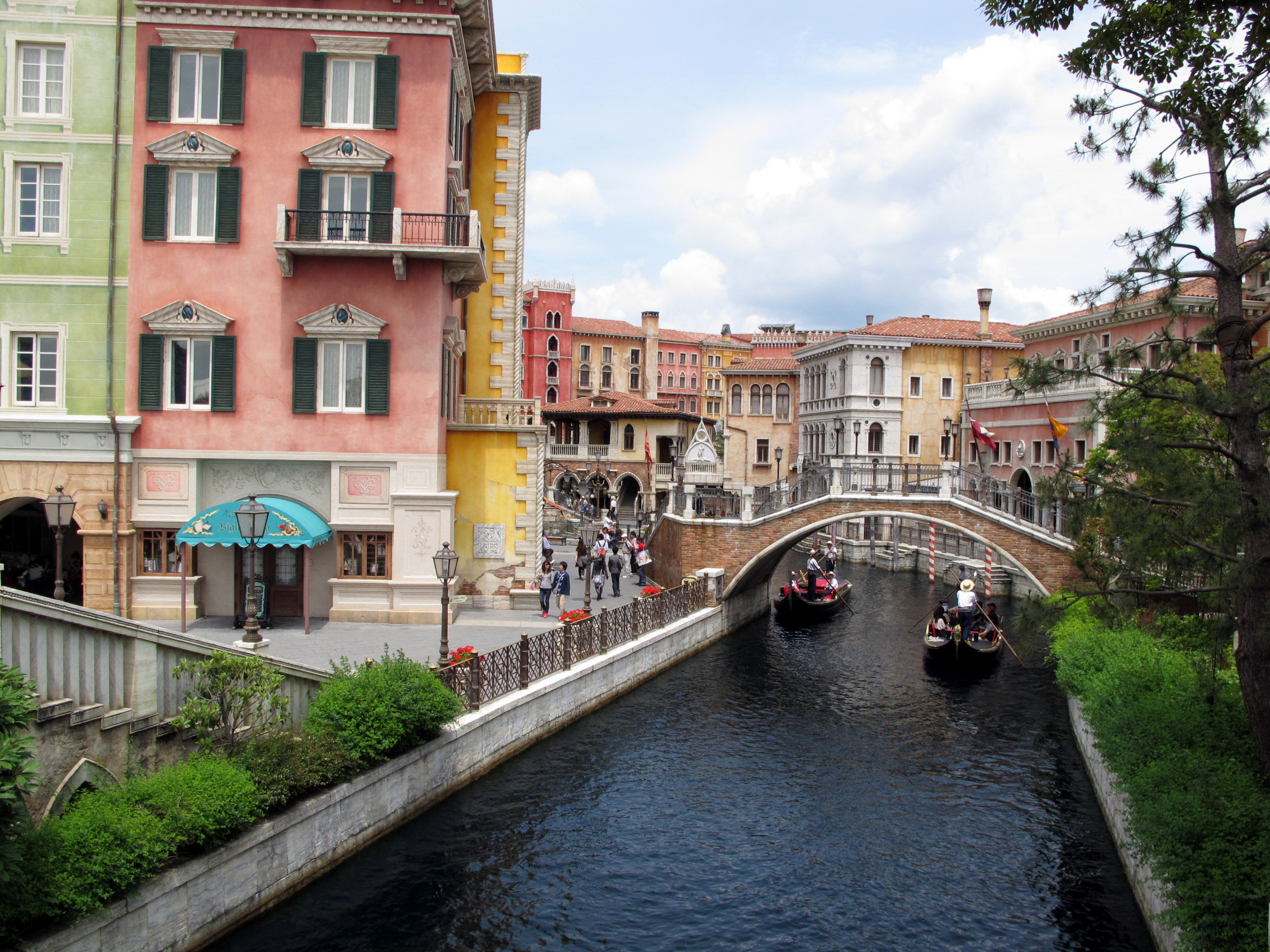 Tokyo DisneySea Mediterranean Harbour